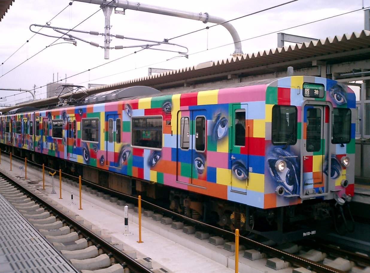 Kakogawa Line Me no aru densha ("train with eyes") designed by Tadanori Yokoo